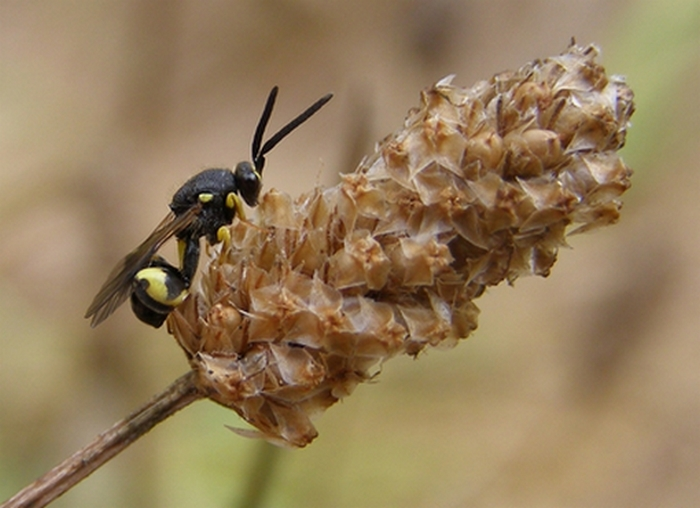 Chalcis myrifex (sleeping)